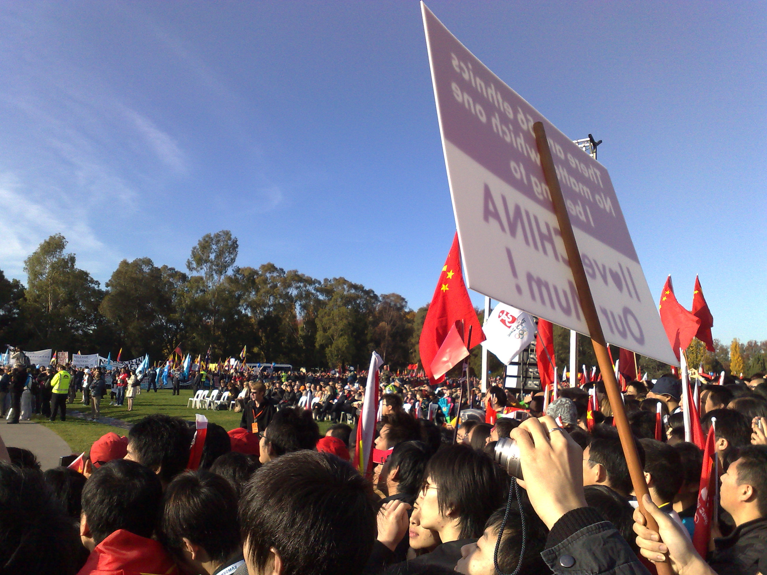 2008 Olympic Torch Relay in Canberra, Australia. Photo shows Chinese majority. Taken by me using a Nokia N95-1. Taken at Reconciliation Place, Canberra, Australia.